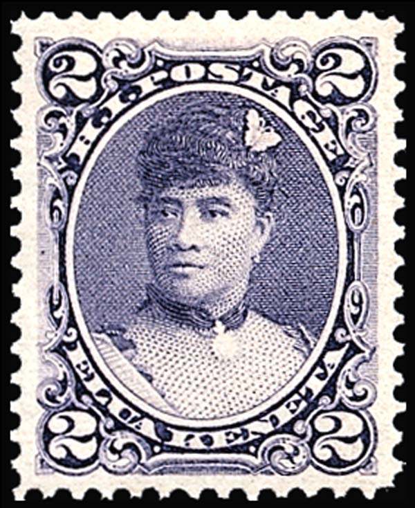 Stamp of Hawaii, 2¢, 1891, dull violet, Queen Liliuokalani, Scott 52.